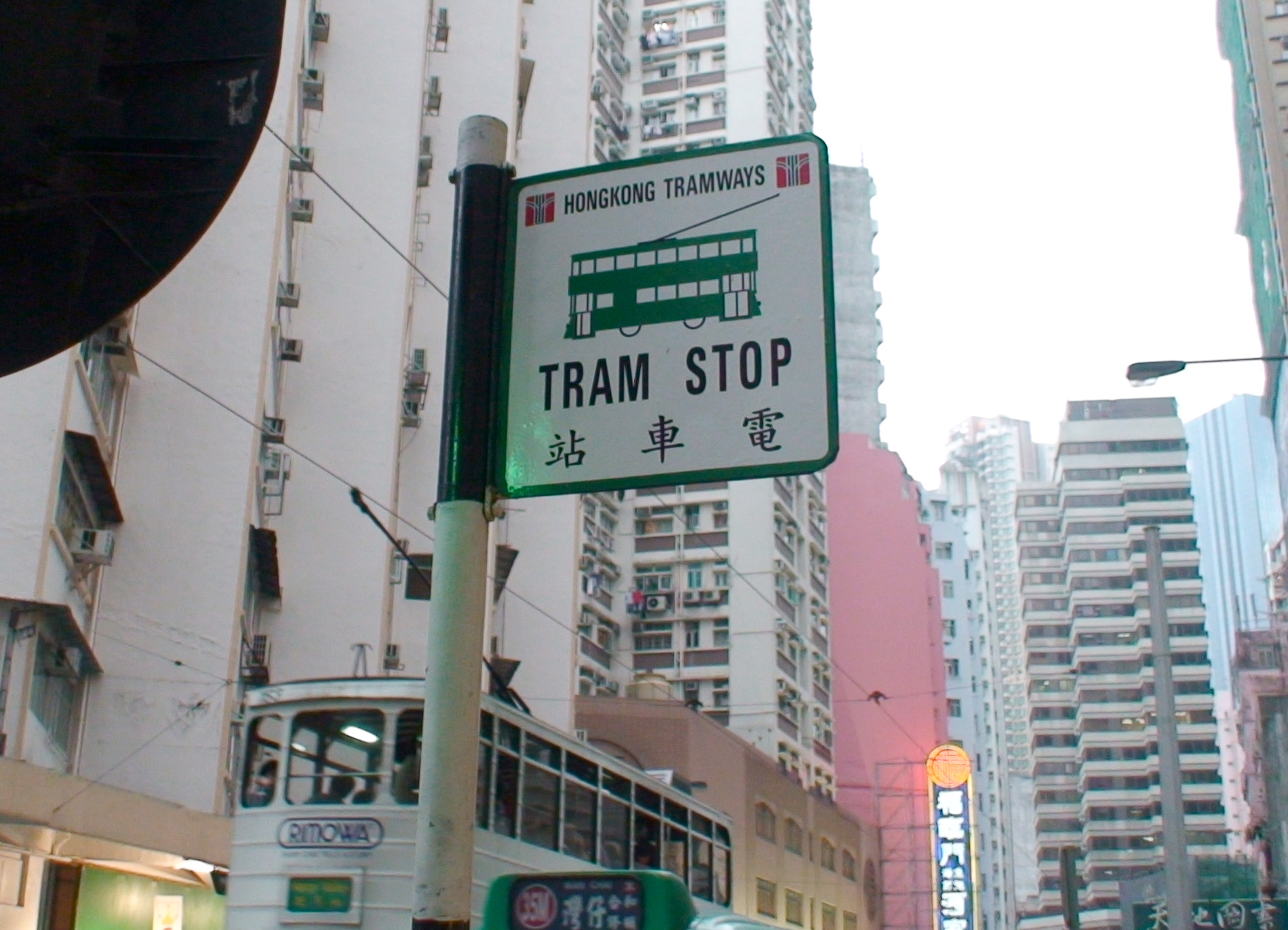 A tram stop sign on Johnston Road (莊士敦路) (which is the main road in Wan Chai, Hong Kong).